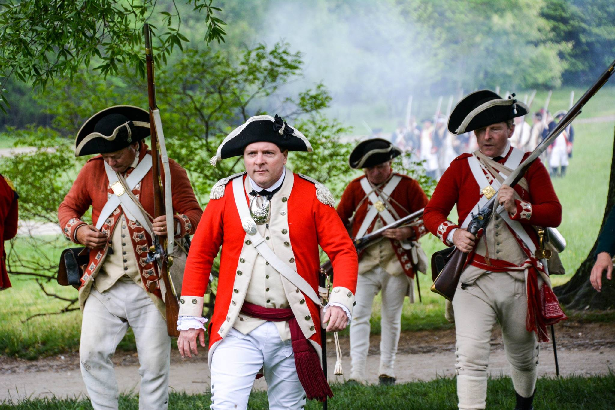 3 regular British Soldiers and an officer with a gorget.